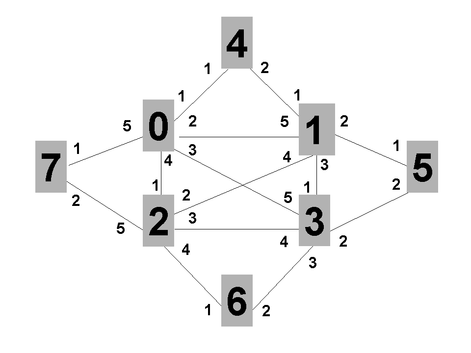 En example 802.1aq network for purposes of descriptions of forwarding/computation